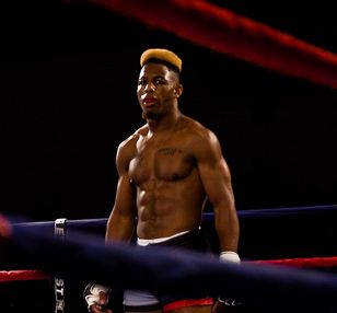 Benjamin John Francis Fodor, also known as , at an MMA fight using the fighting name "Fear the Flattop"